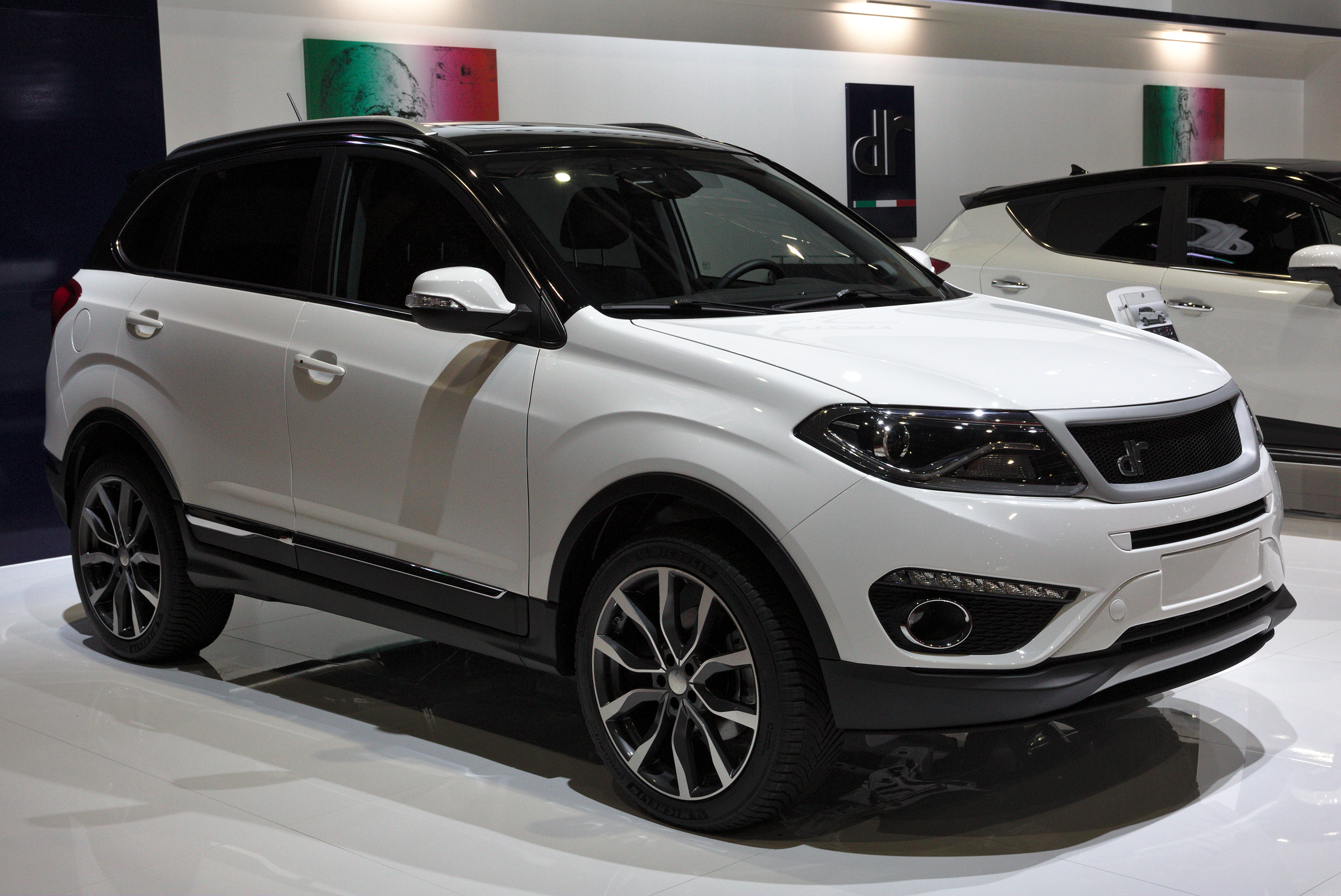 DR6 at Geneva Motor Show 2019